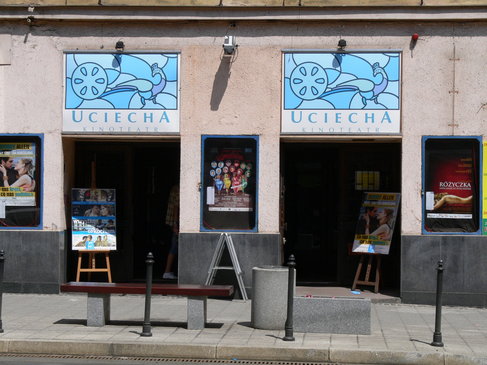 Movie theater Uciecha in Kraków, Poland